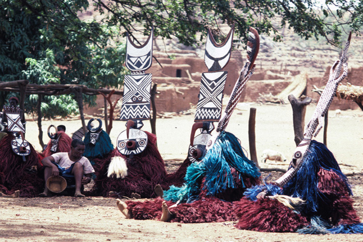 Bwa masks in the village of Dossi. Two plank masks, two crocodile masks, a leper mask, and two buffaloes. Photo 1985 by Christopher D. Roy Other information It is my own photograph. I am desperately trying to add legitimate photos to the website that is 90% based on my own personal research